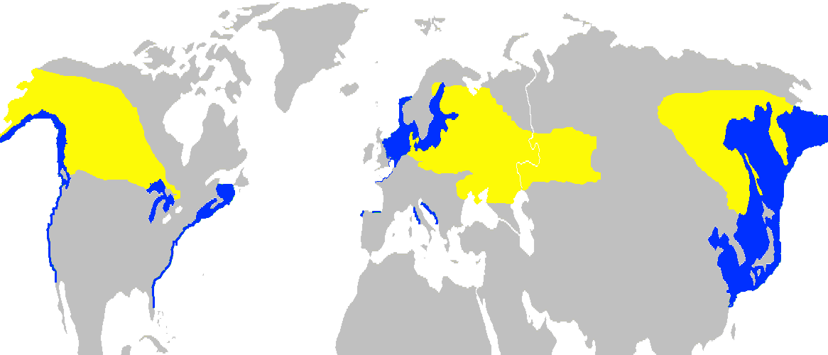 Red-necked Grebe (Podiceps grisegena) range map based on Harrison, Peter (1988) Seabirds, London: Christopher Helm, pp. 413 ISBN: 0747014108. , modified in southern Europe as per Snow, David; Perrins, Christopher M (editors) (1998) The Birds of the Western Palearctic (BWP) concise edition (2 volumes), Oxford: Oxford University Press